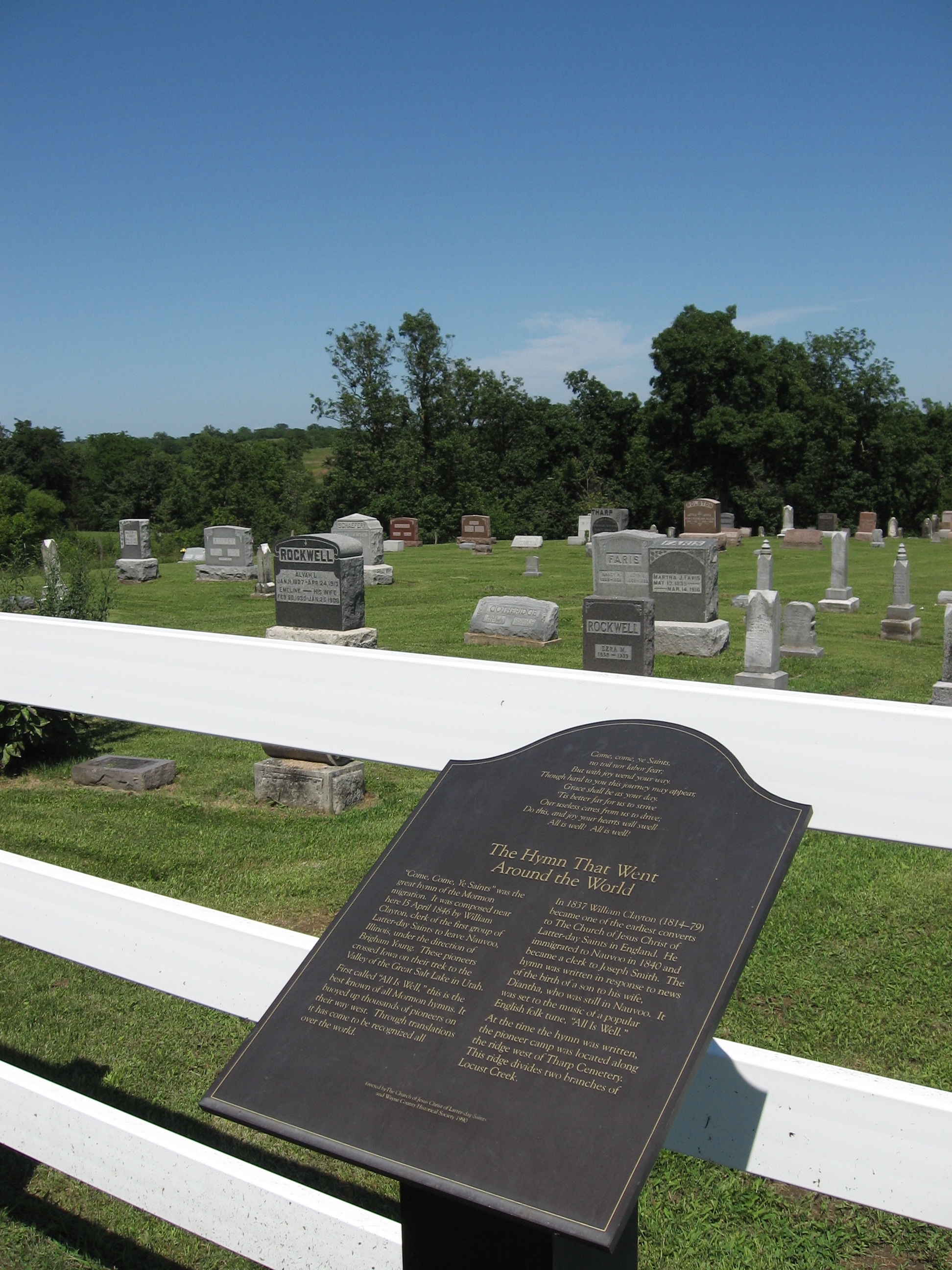 Tharp Cemetery in Wayne County, Iowa, with historical marker about LDS hymn "Come, come ye saints" by William Clayton Text of the plaque is as follows: Come, come ye Saints, no toil nor labor fear; But with joy wend your way. Though hard to you this journey may appear, grace shall be as your day. 'Tis better far for use to strive Our useless cares from us to drive; Do this, and joy your hears will swell All is well! All is well! The Hymn That Went Around the World "Come, Come, Ye Saints" was the great hymn of the Mormon migration. It was composed near here 15 April 1846 by William Clayton, clerk of the first group of Latter-day Saints to leave Nauvoo, Illinois, under the direction of Brigham Young. These pioneers crossed Iowa on the trek to the Valley of the Great Salt Lake in Utah. First called "All Is Well," this is the best known of all Mormon hymns. It buoyed up thousands of pioneers on their way west. Through translations it has come to be recognized all over the world. in 1837 William Clayton (1814-79) became one of the earliest converts to The Church of Jesus Christ of Latter-day Saints in England. He immigrated to Nauvoo in 1840 and became a clerk to Joseph Smith. The hymn was written in response to news of the birth of a son to his wife, Diantha, who was still in Nauvoo. It was set to the music of a popular English folk tune, "All Is Well." At the time the hymn was written. the pioneer camp was located along the ridge west of Tharp Cemetery. This ridge divides two branches of Locus Creek. Erected by The Church of Jesus Christ of Latter-day Saints and Wayne County Historical Society 1990